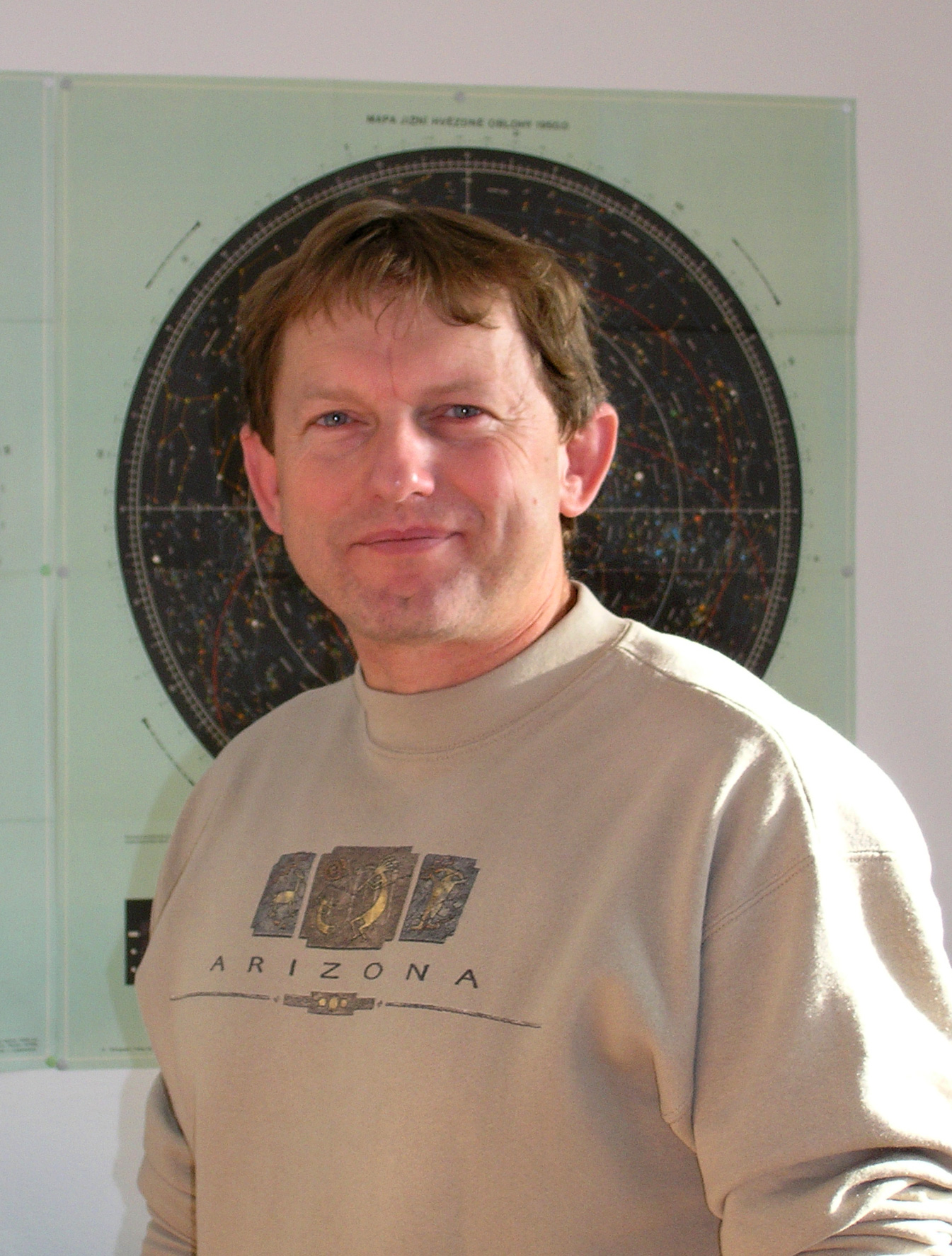 Czech astronomer Pavel Spurný at the Czech Astronomical Institute in Ondřejov